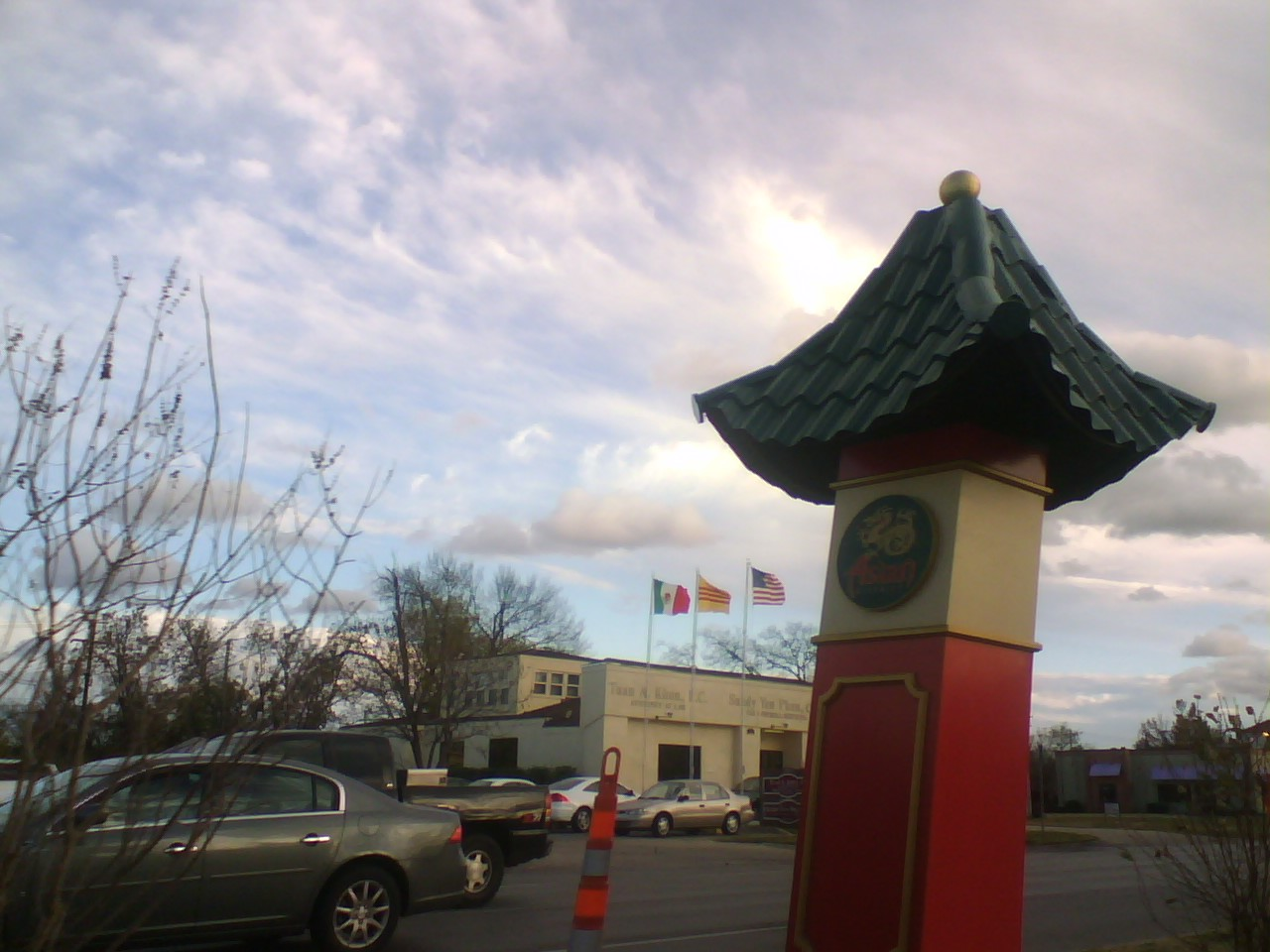 Photograph of Asian District Streetscaping in Oklahoma City, Oklahoma